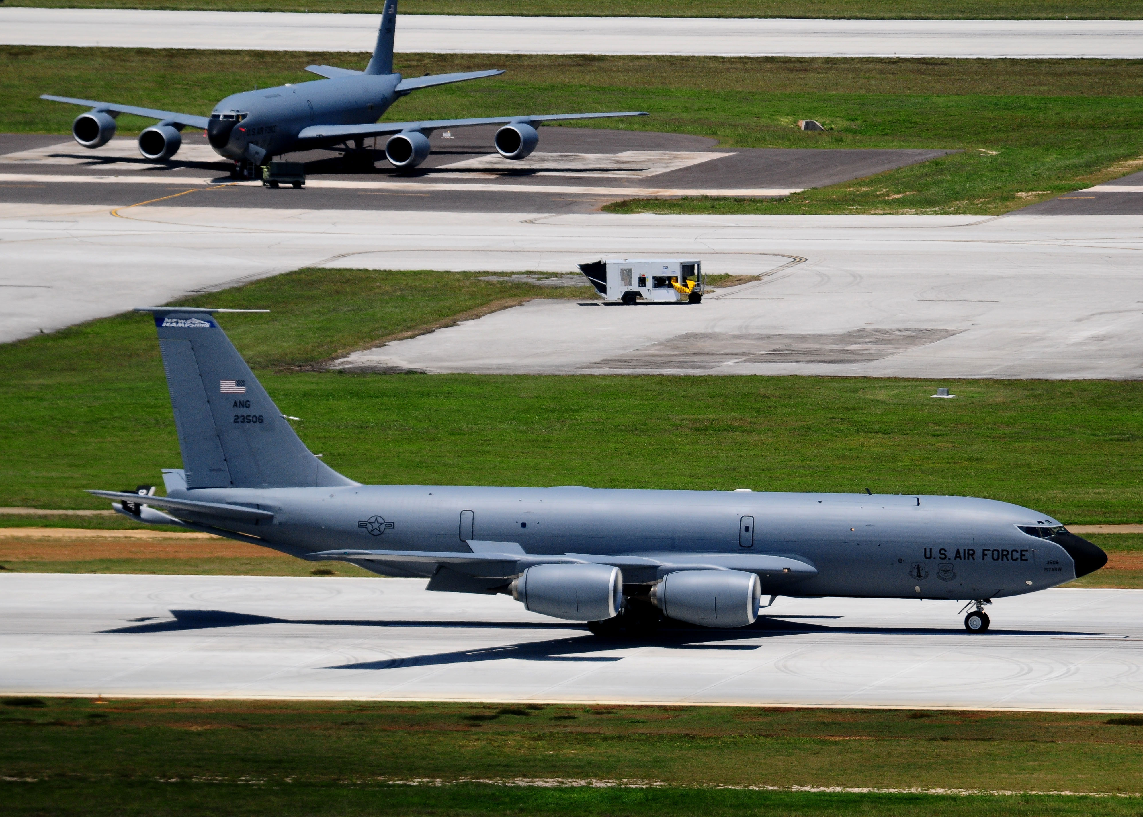 A U.S. Air Force Boeing KC-135R Stratotanker (s/n 62-3506) from the 133rd Air Refueling Squadron, 157th Air Refueling Wing, New Hampshire Air National Guard, taxi on the Andersen Air Force Base flightline, Guam (USA), while participating in the exercise "Valiant Shield 2010".